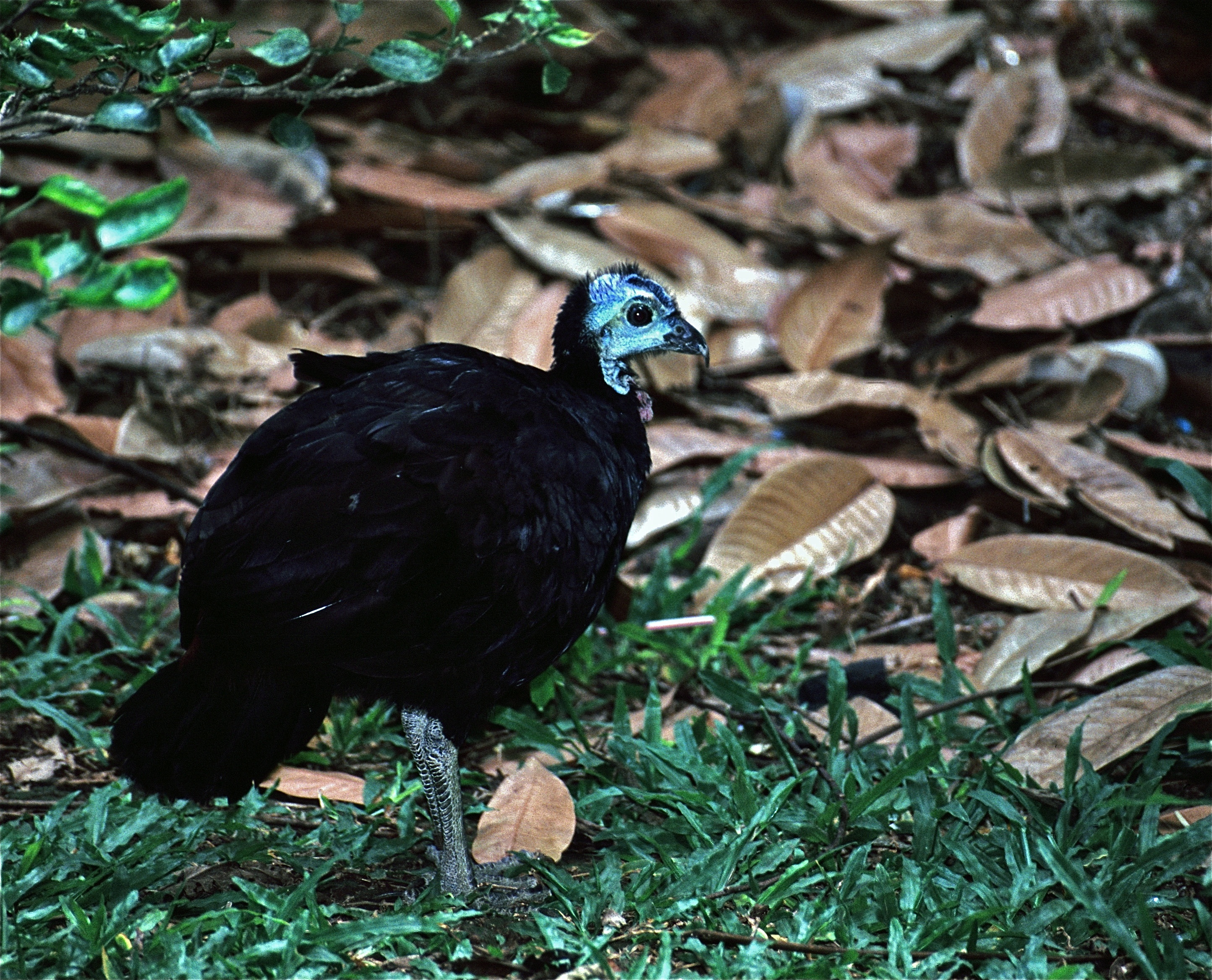 Bird Park, Wisata Bogor, Java, INDONESIA Scanned Slide from 2003